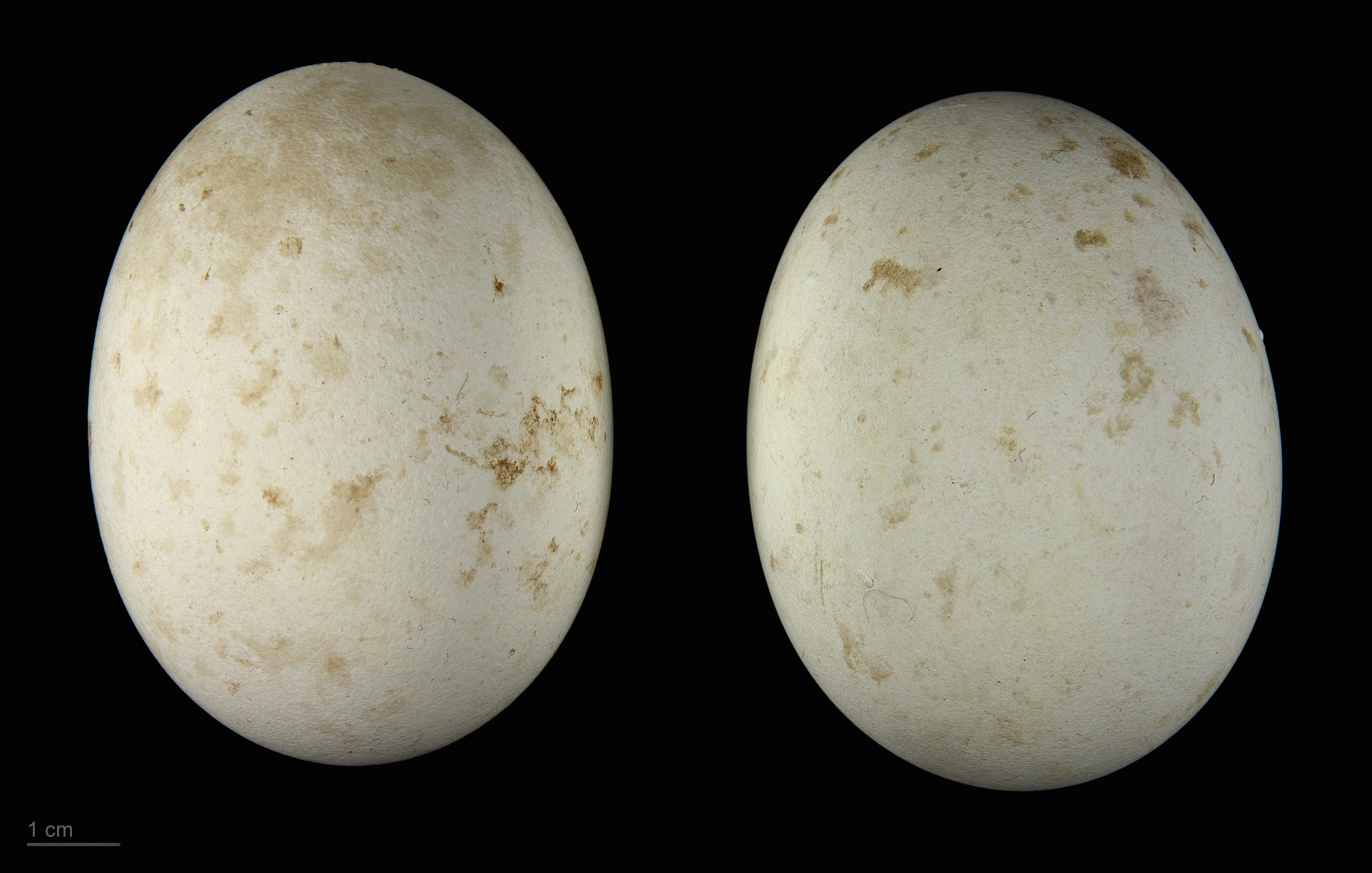 Eggs of Bonelli's eagle Two specimens of the same spawn ; collection of Jacques Perrin de Brichambaut.